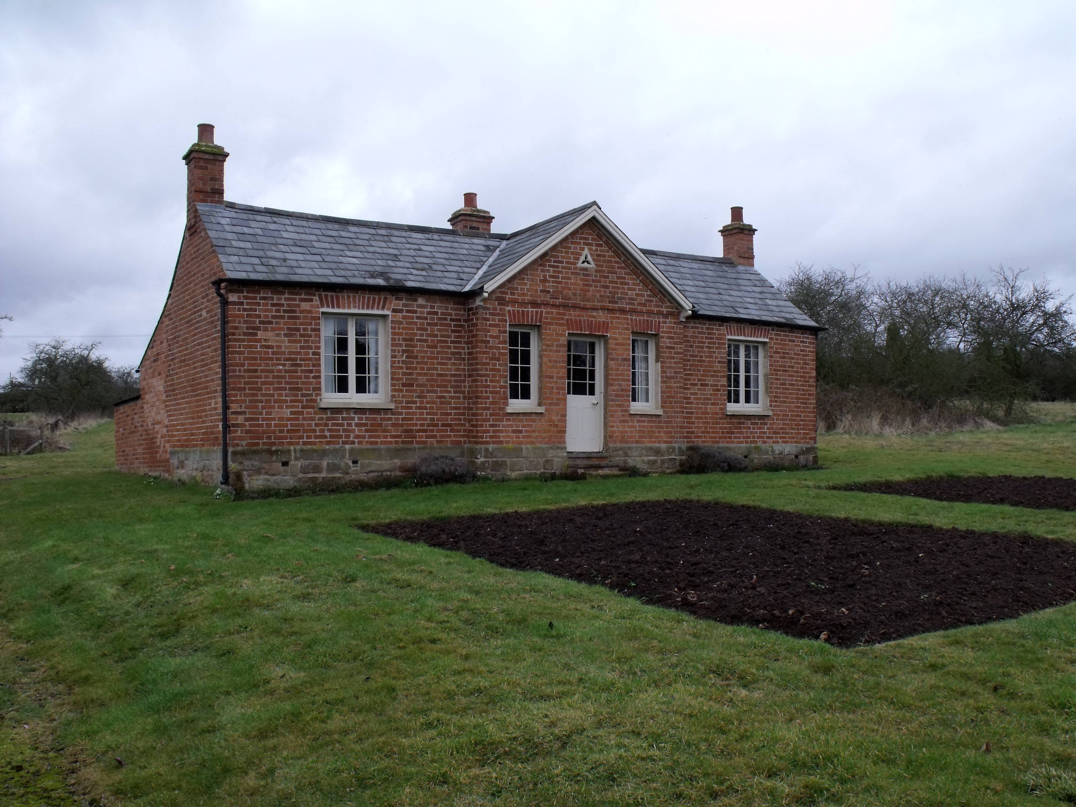 'Rosedene' Chartists Cottage, Dodford The National Trust has now restored this Chartist Cottage to its original state.